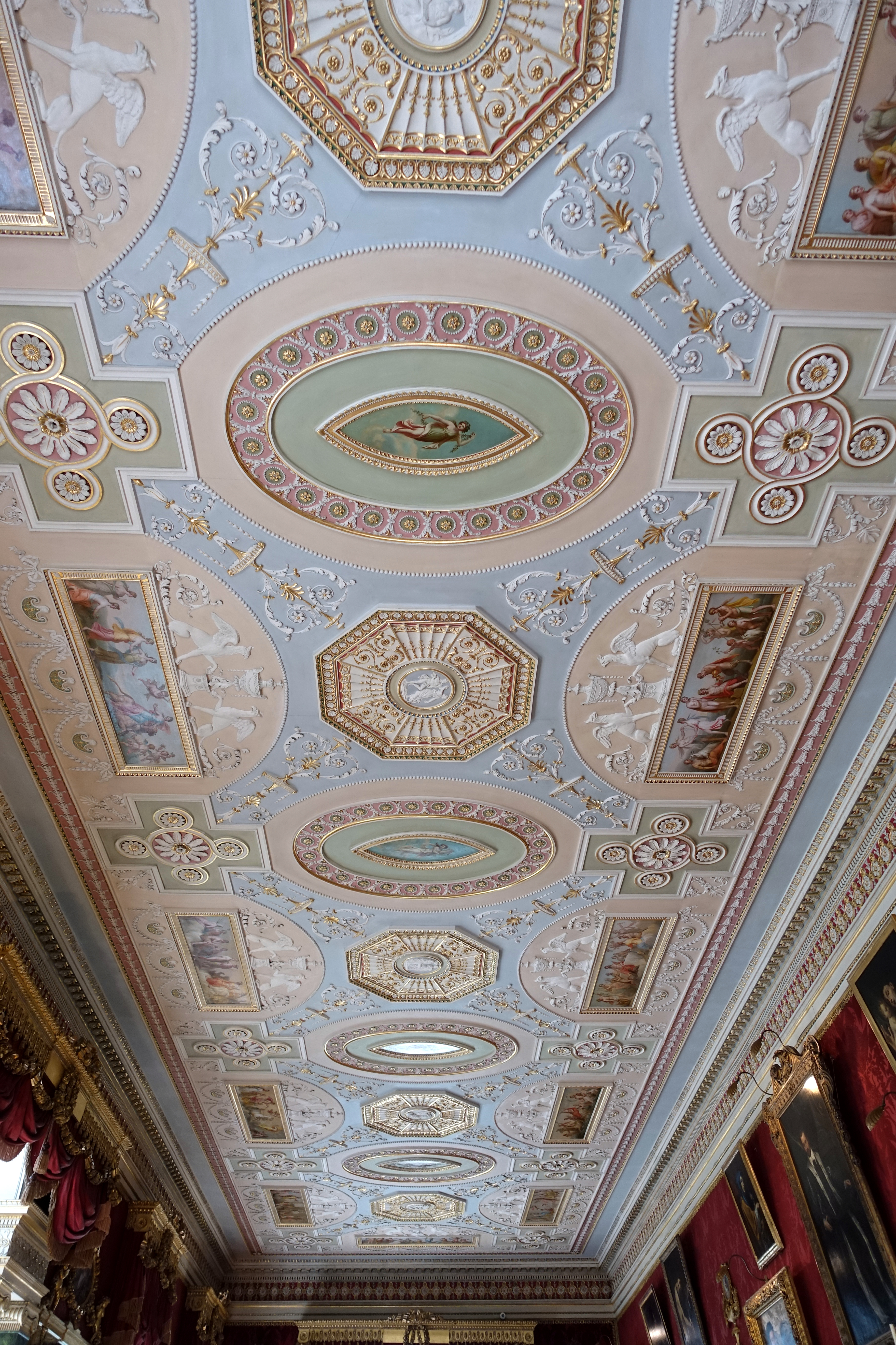 Gallery ceiling by Robert Adam - Harewood House - West Yorkshire, England.